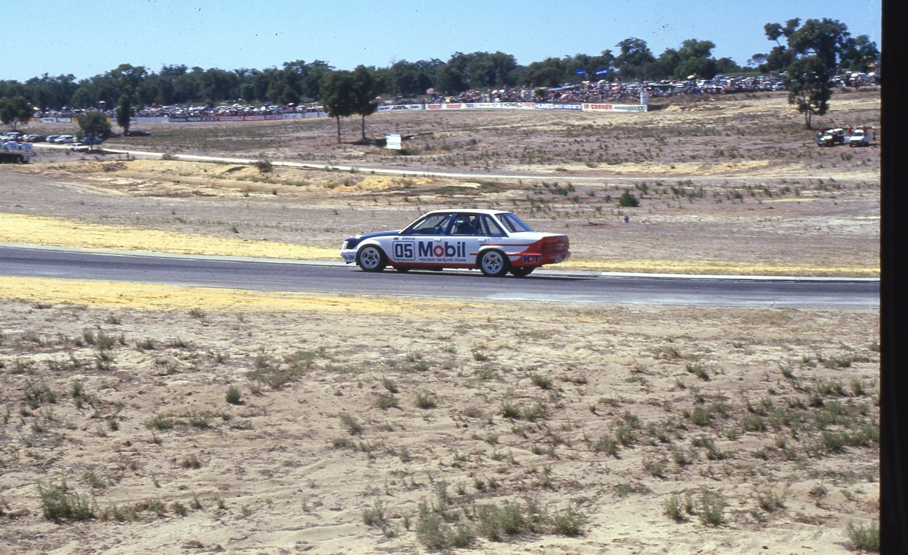 HDT 05 being driven by Peter Brock at Wanneroo Raceway 1985